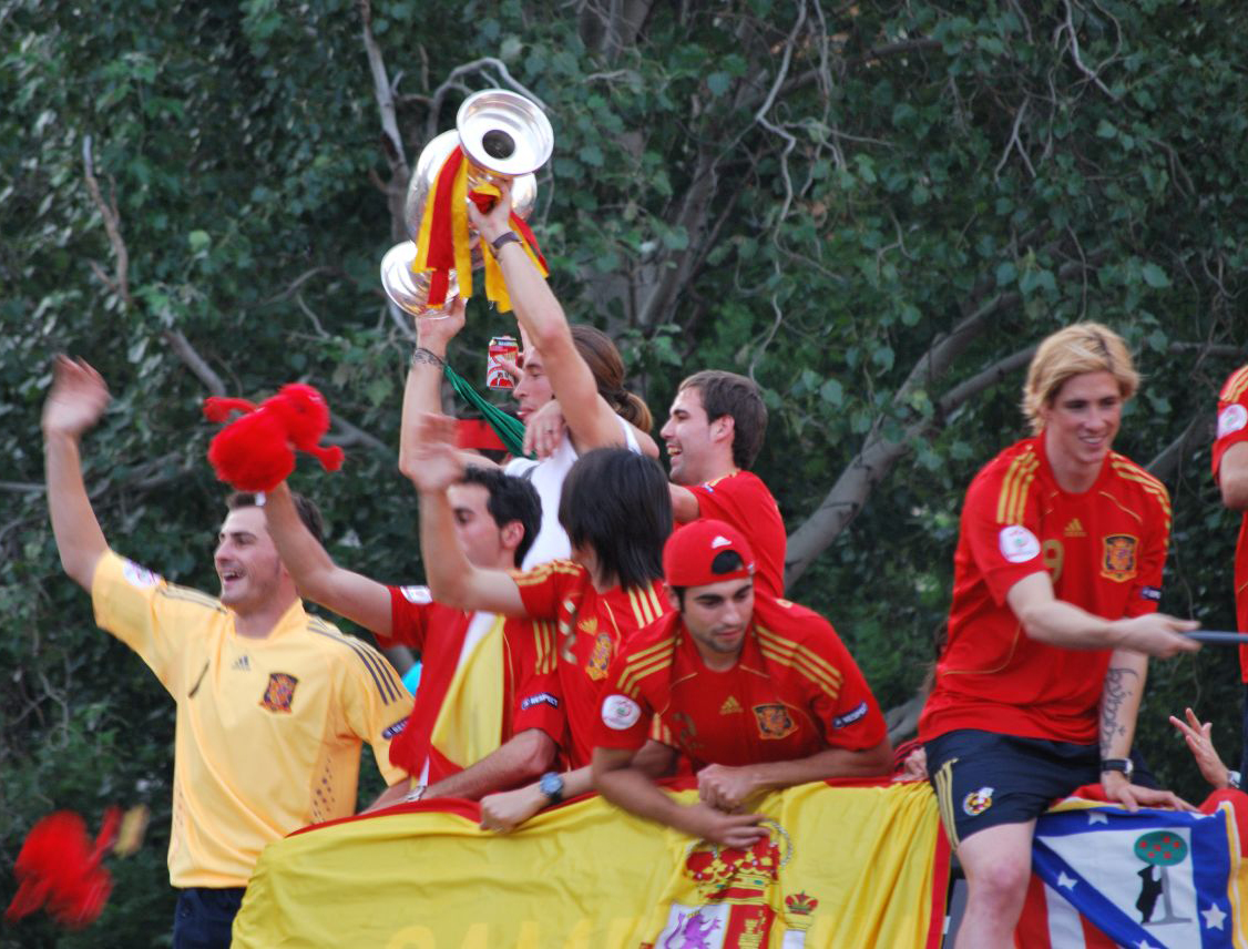 Fernando Torres, Iker Casillas, Raúl Albiol and other members of the Spain national football team celebrating Spain's Euro 08 championship